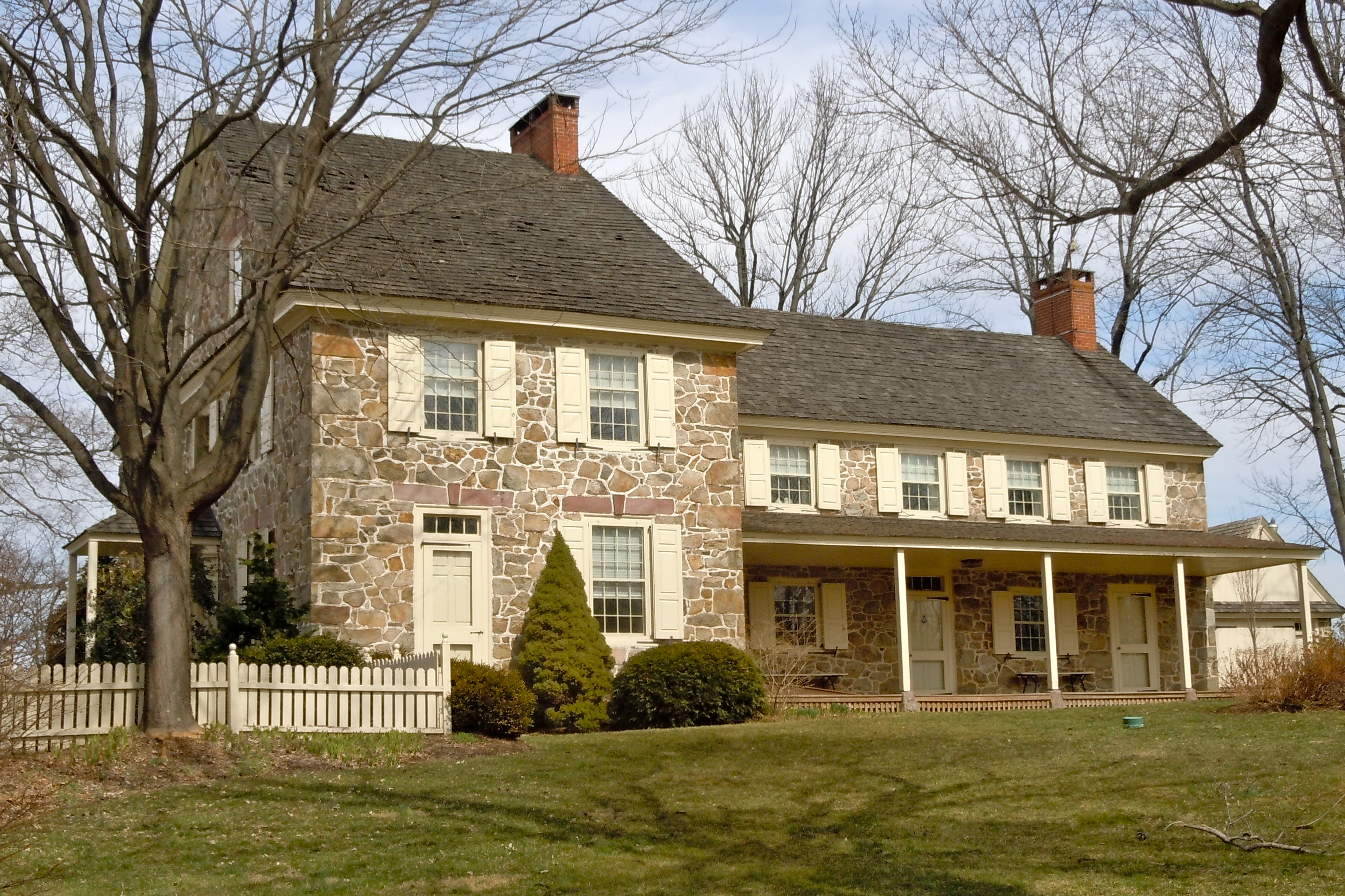 Thomas Bull House on the NRHP since August 3, 1979. Located east of Elverson on Bulltown Road in East Nantmeal Township, Chester County, Pennsylvania. Old stone house, now has a subdivision of old-looking stone houses across the street, based in part on it's architecture. No Bull!